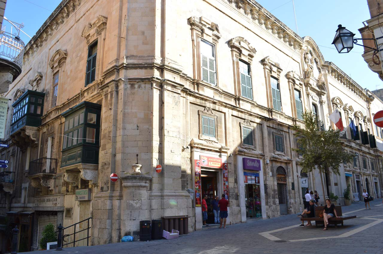 Castellania in Valletta, Malta